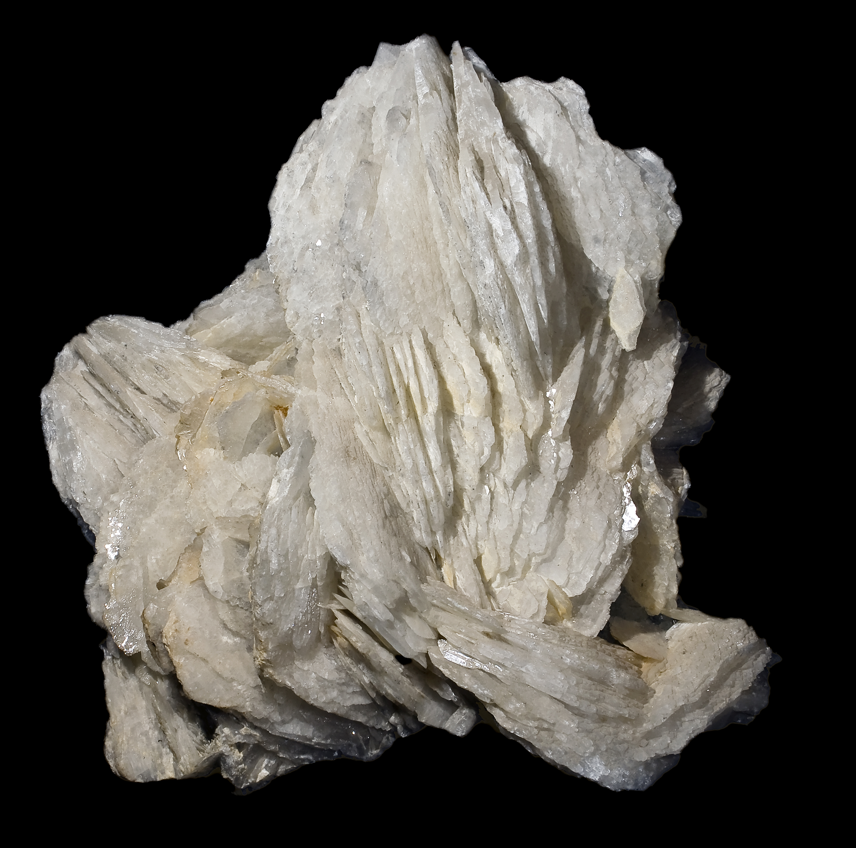 Baryte Locality : Mibladen Mine, Mibladene (Mibladén; Mibladan; Miblanden), Upper Moulouya lead district, Midelt, Khénifra Province, Meknès-Tafilalet Region, Morocco Size : 33x32x18 cm